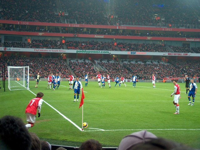 Arsenal have a corner